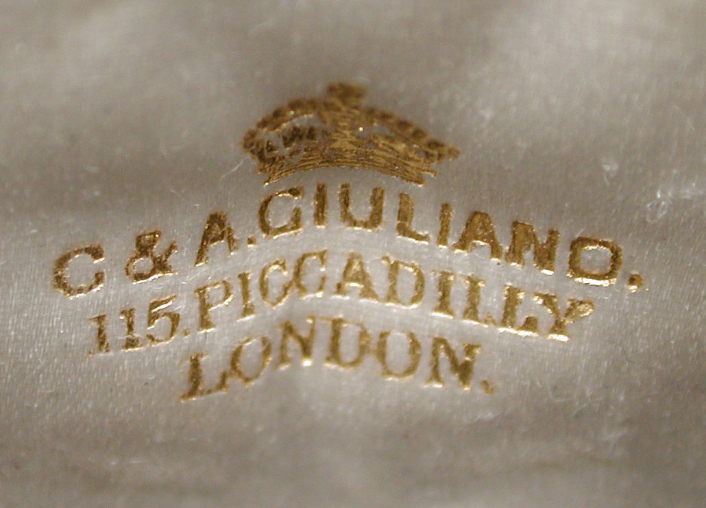 British, London; Belt buckle; Metalwork-Gold and Platinum